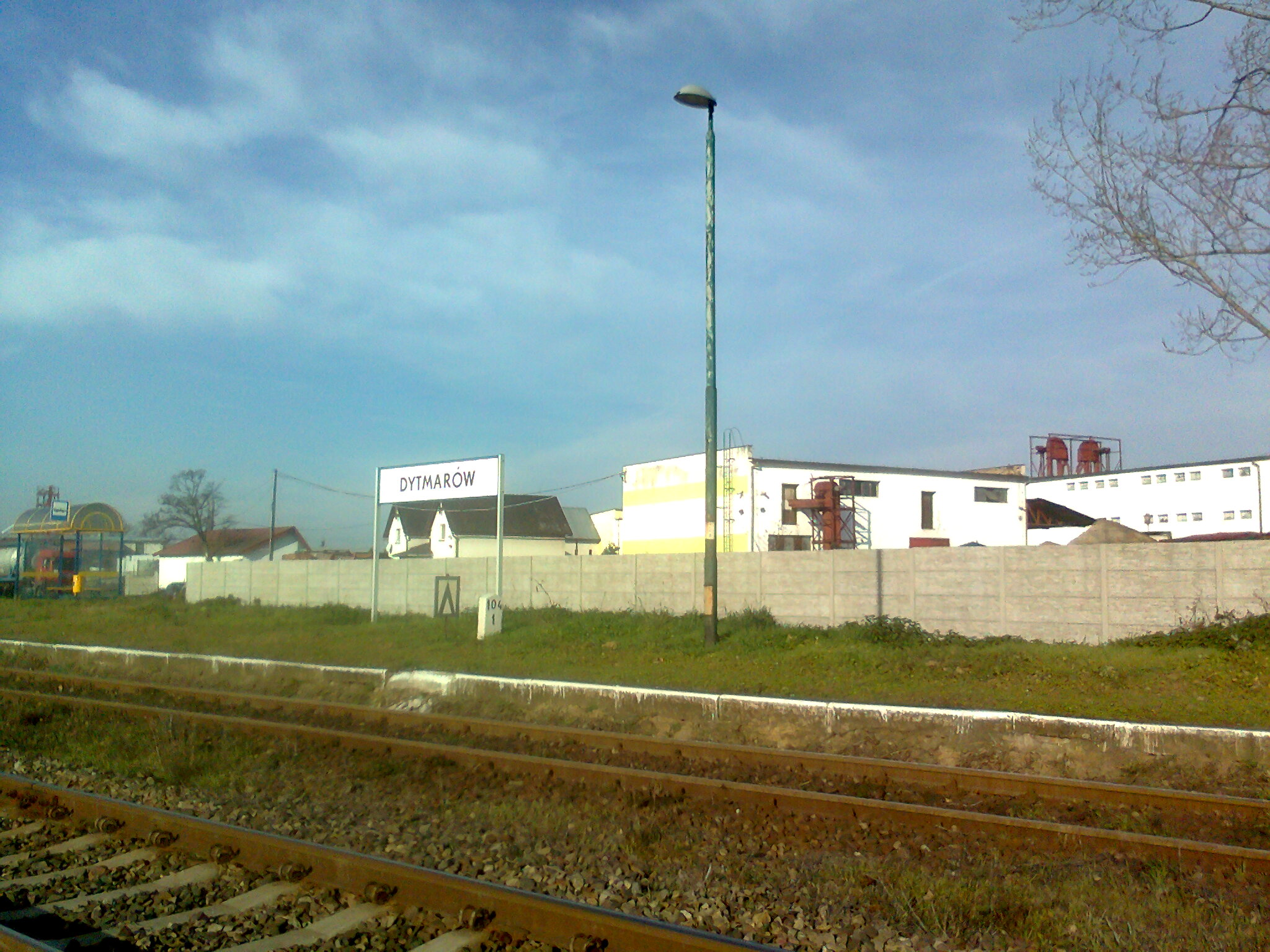 Dytmarów railway stop, Poland